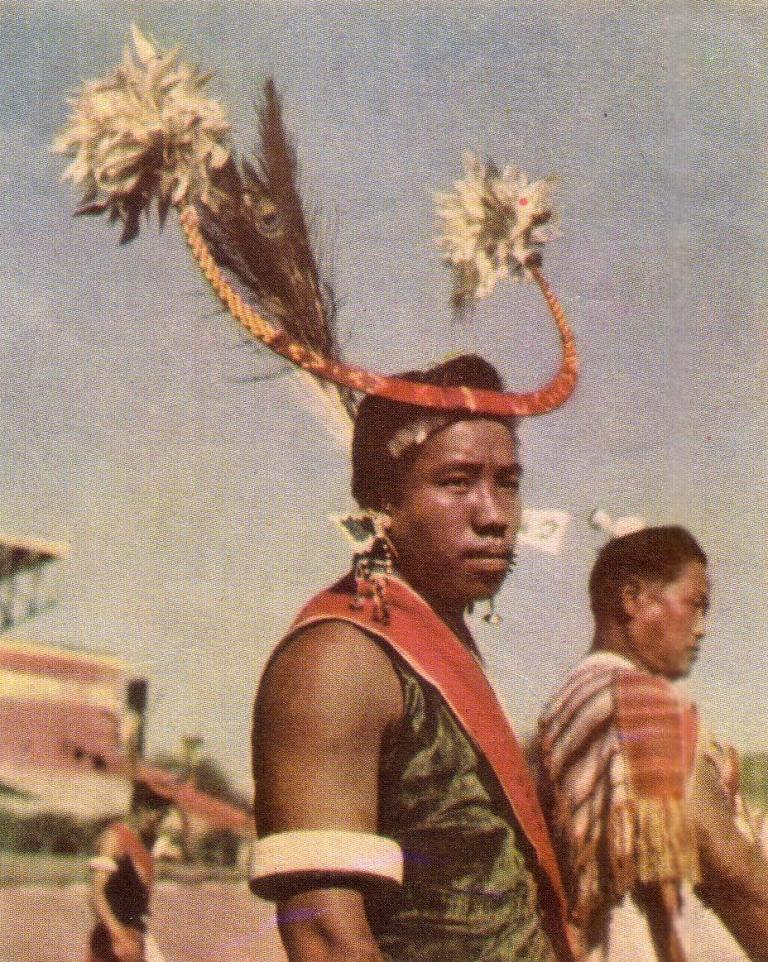 Dancer from Naga tribe of Zeliangrong